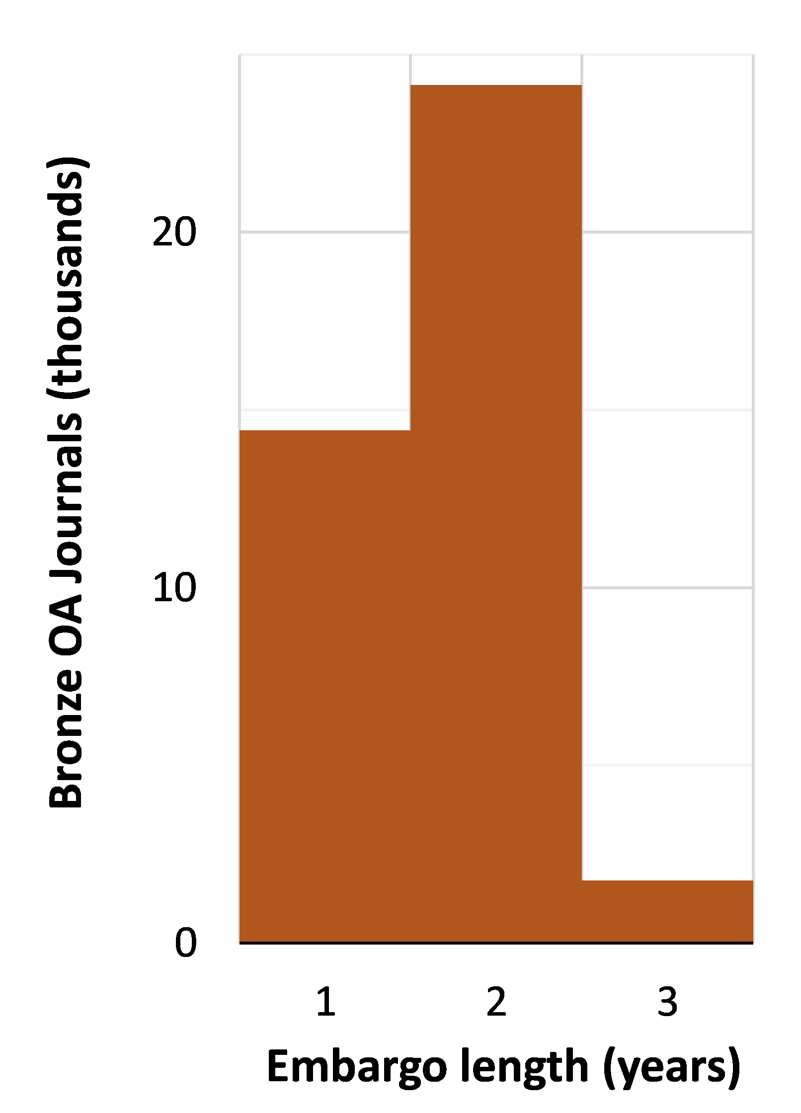 Length of embargo times for 40410 Elsevier journals (as of May 2019). Data from